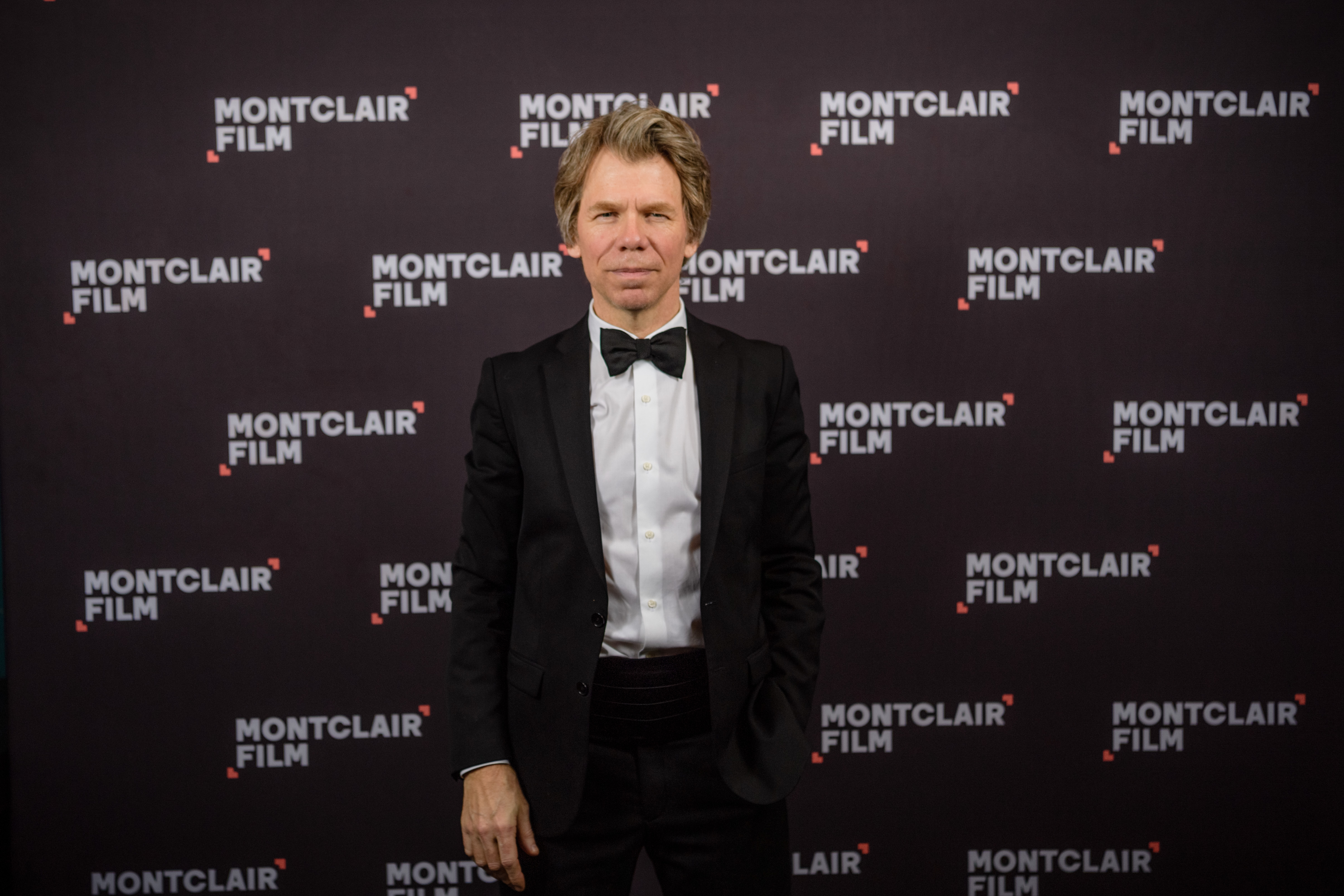 Warren Zanes at the Divas Dance Party, Wellmont Theater located in Montclair, New Jersey.